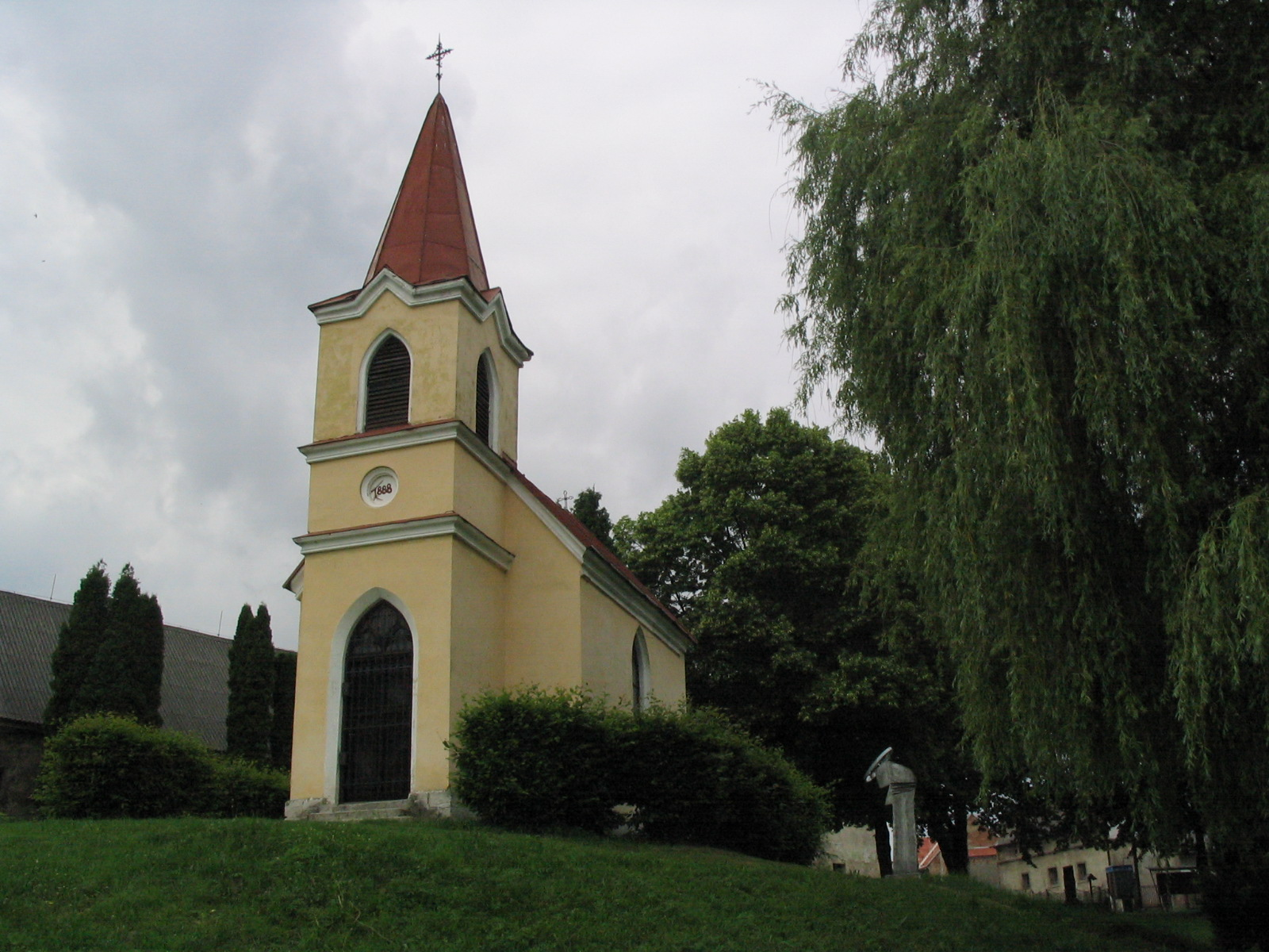 St Wenceslas chapel (1861) in Horni Bukovina, Mladá Boleslav District, Czech Republic